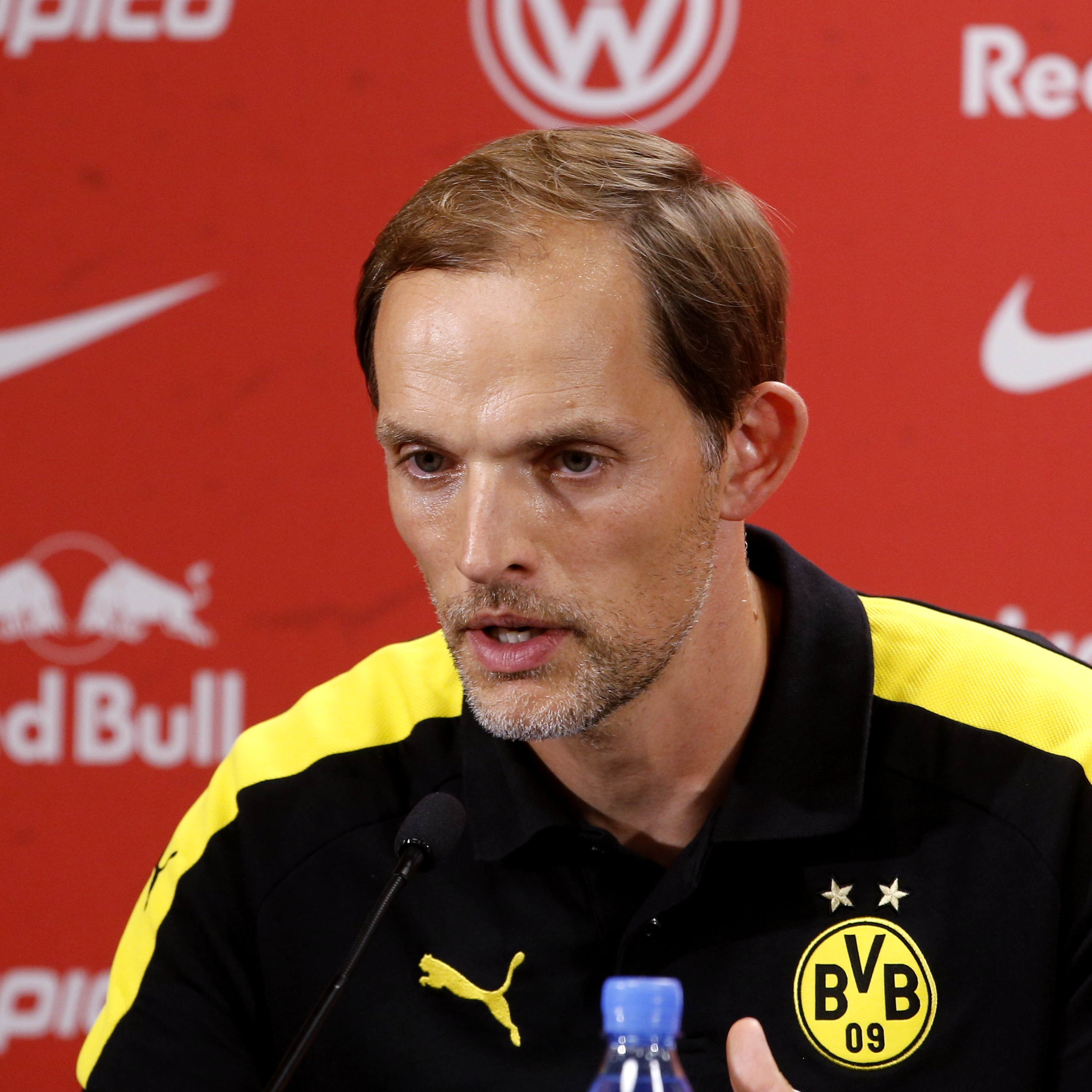 Coach of Borussia Dortmund Thomas Tuchel